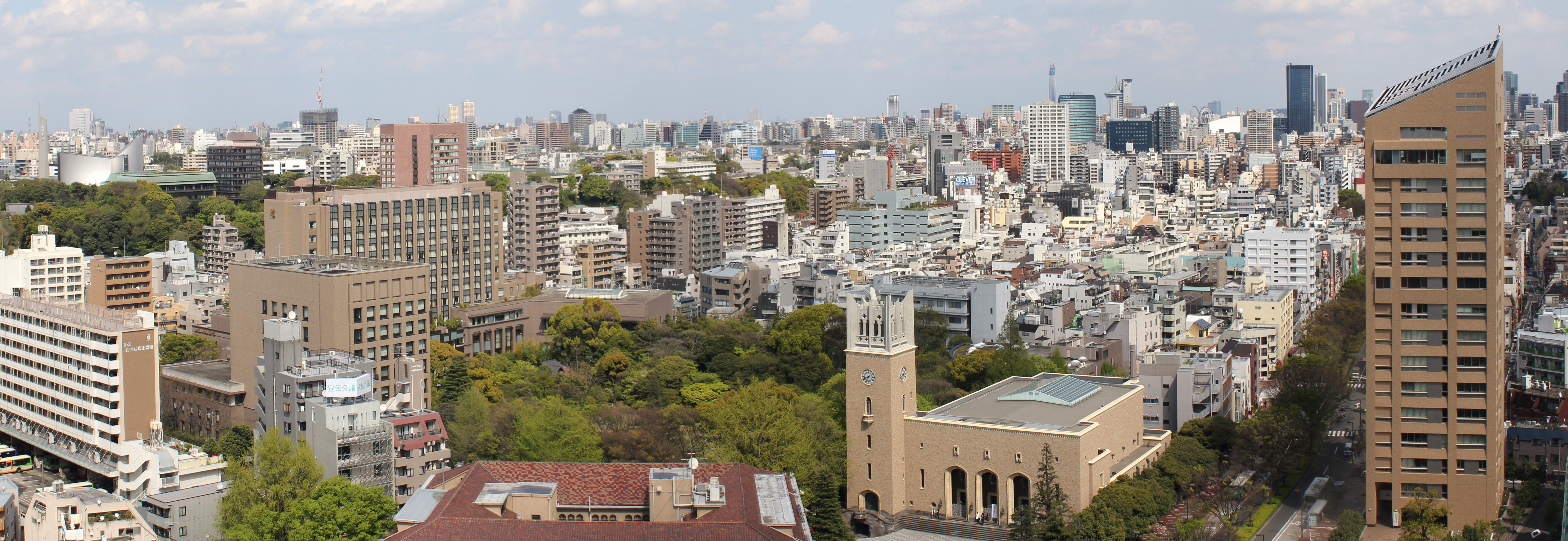 View of Waseda campus and its neighborhood, University of Waseda, Tokyo.